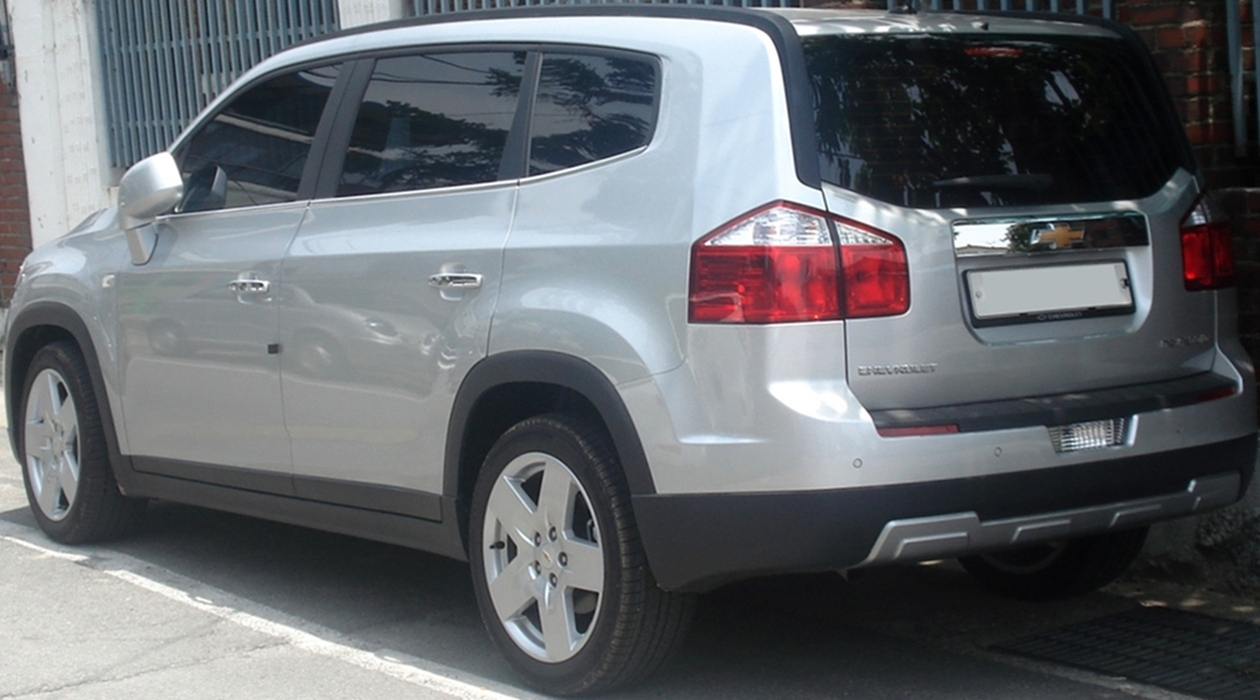 Chevrolet Orlando